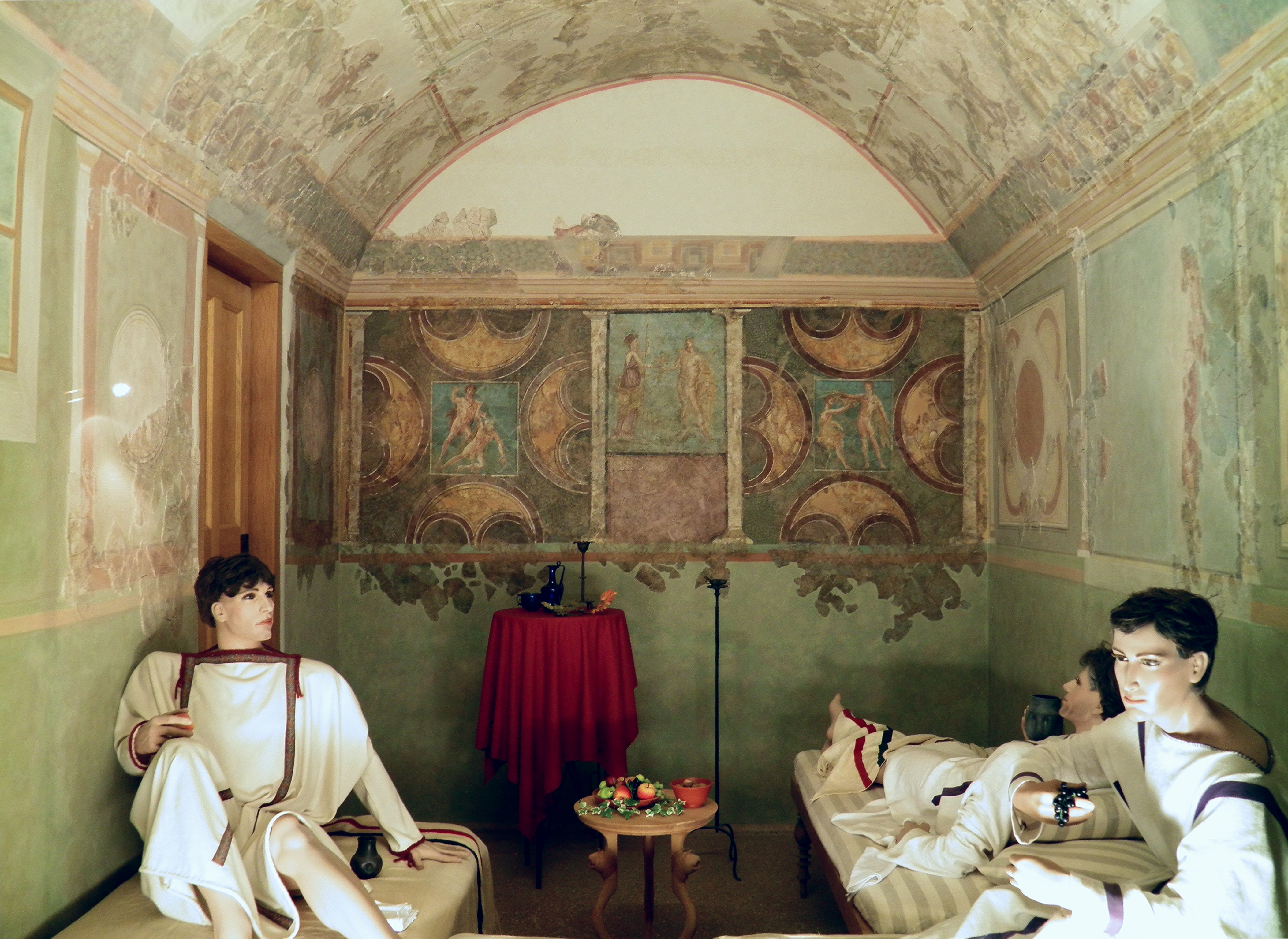 A richly decorated triclinium (officer’s dining room), the most complete Roman wall-painting of all the limes, found in the Limes fort at Echzell, Saalburg Roman Fort, Limes Germanicus, Germania (Germany)